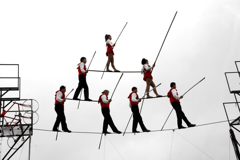 The Flying Wallendas 7-Man Pyramid The Big E Fair, 2005